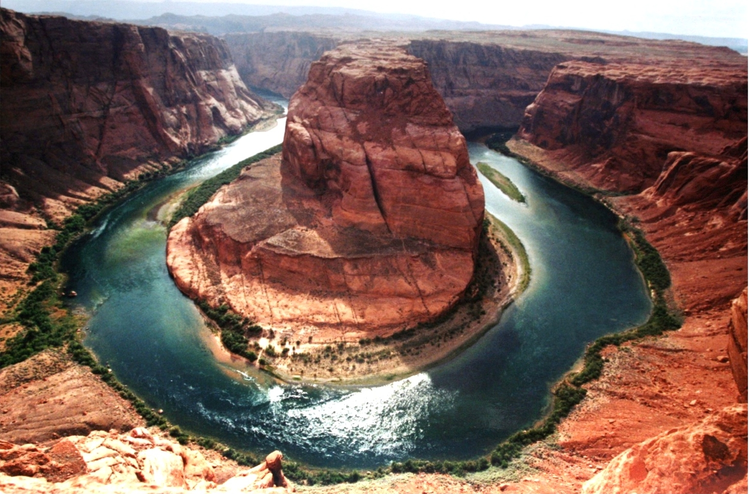 Horseshoe Bend of Page, Arizona, The picture was taken byBrocken Inaglory